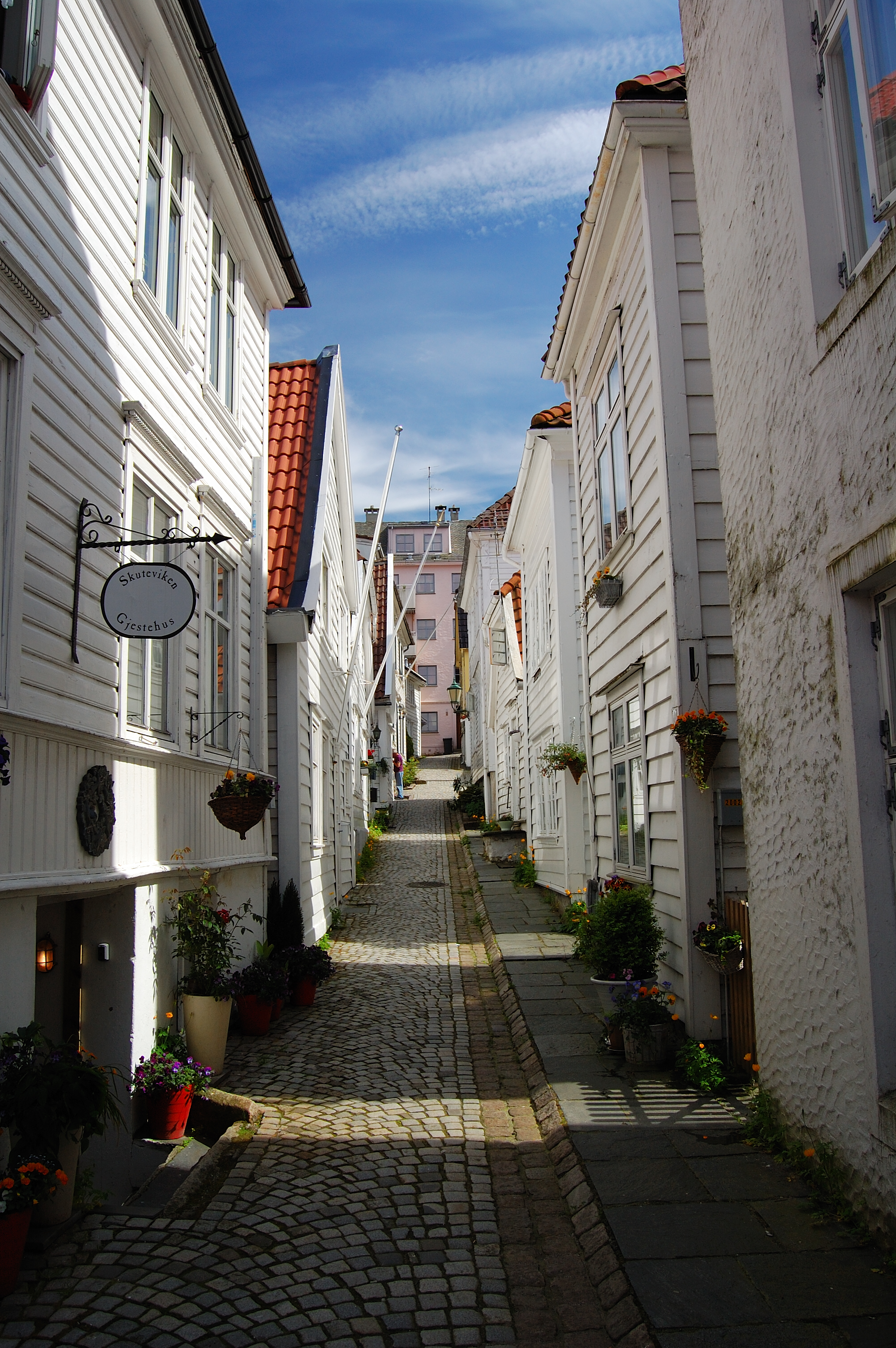 A typical narrow street in Sandviken, a borough of Bergen, Norway.